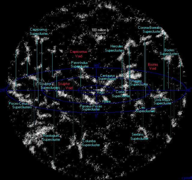 The universe within 1 billion light years of Earth, showing local superclusters. Approximately 63 million galaxies are shown.